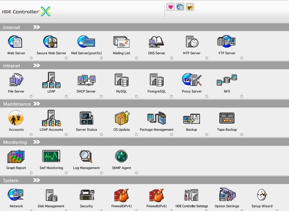 HDE Controller X